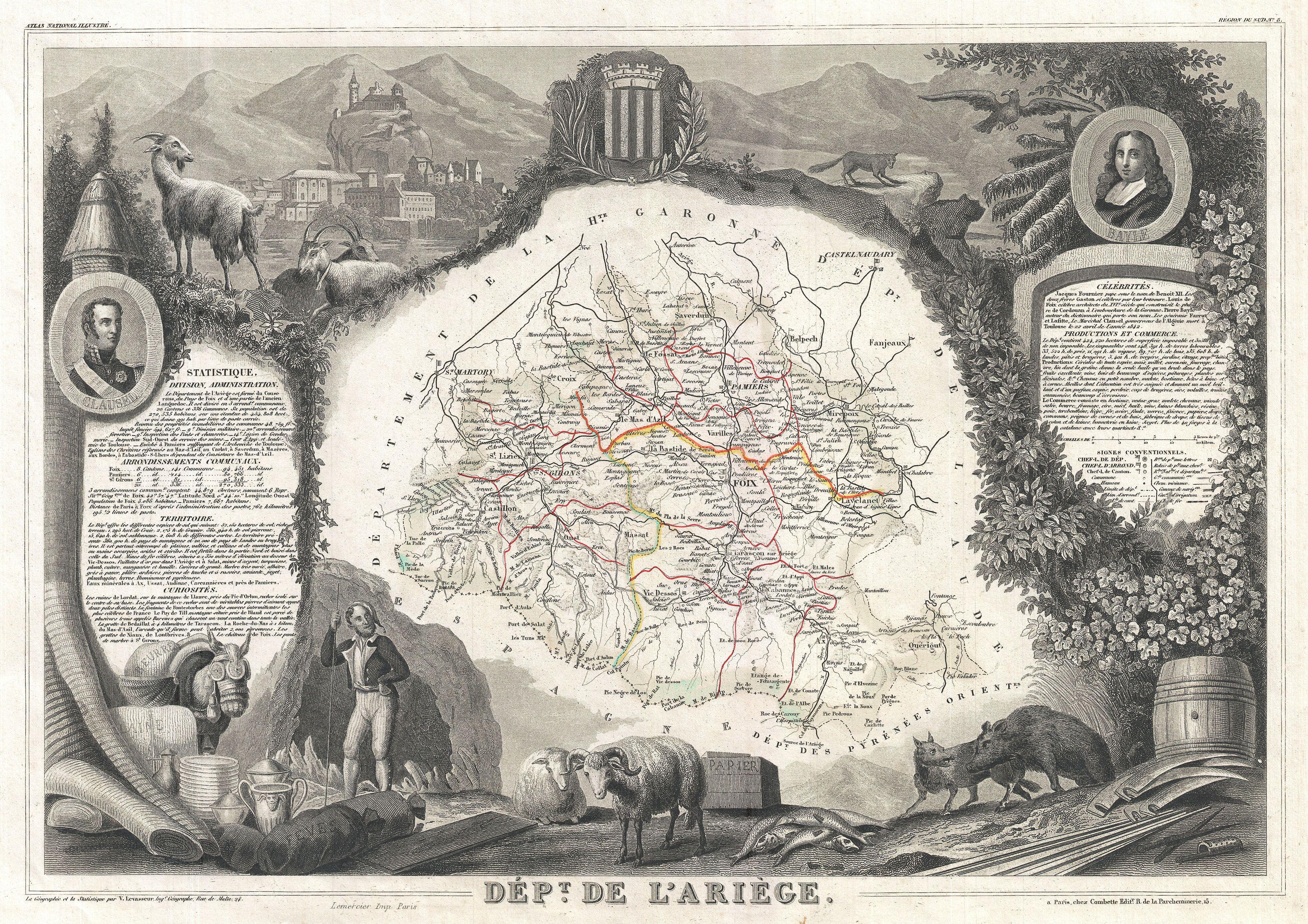 This is a fascinating 1857 map of the French department of Ariege, France. This area of France is known for its production of semi-soft and mild cheeses, such as Bethmale, Bamalous, Moulis and Rogallai. The whole is surrounded by elaborate decorative engravings designed to illustrate both the natural beauty and trade richness of the land. There is a short textual history of the regions depicted on both the left and right sides of the map. Published by V. Levasseur in the 1852 edition of his Atlas National de la France Illustree.